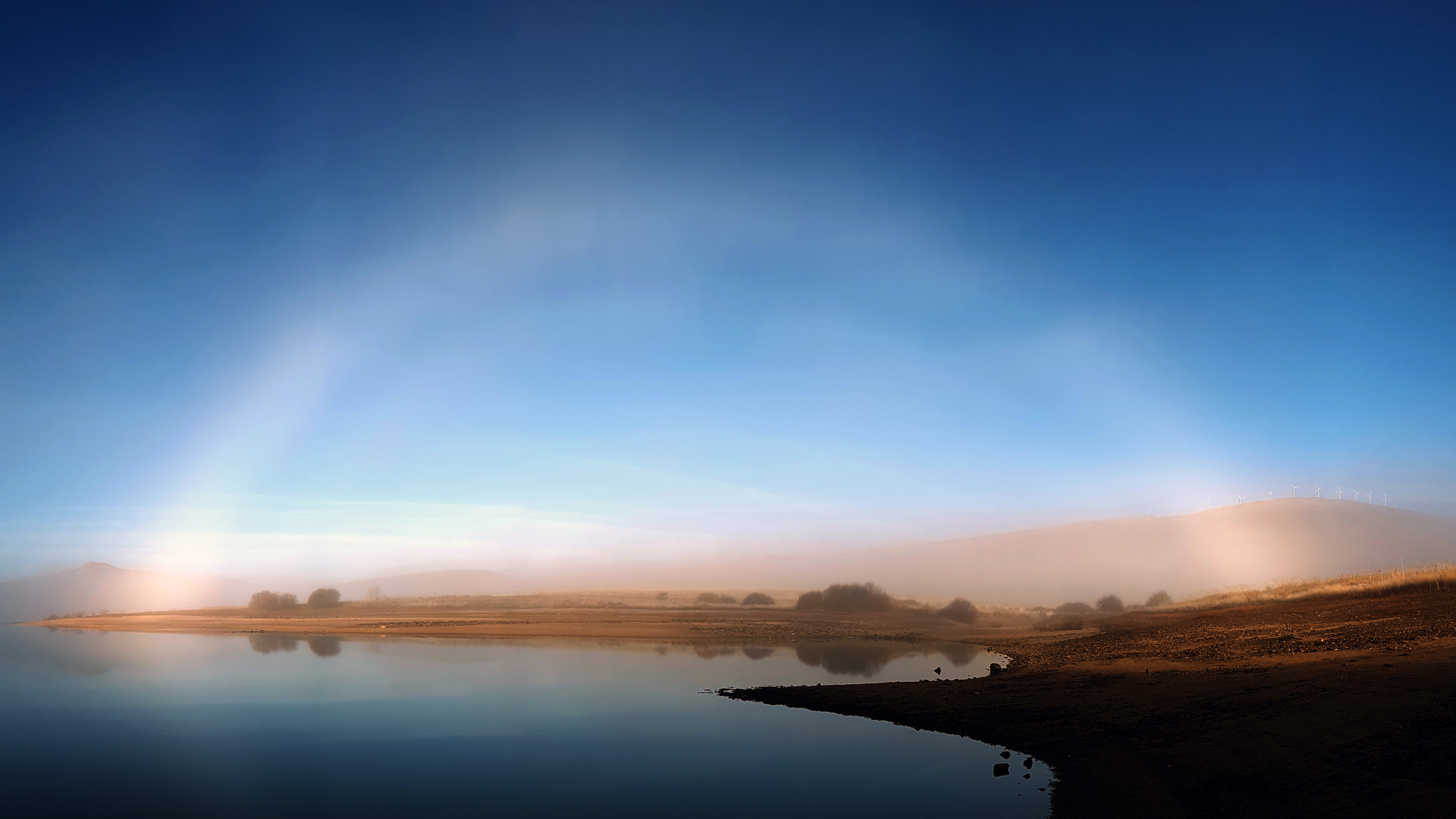 FogBow